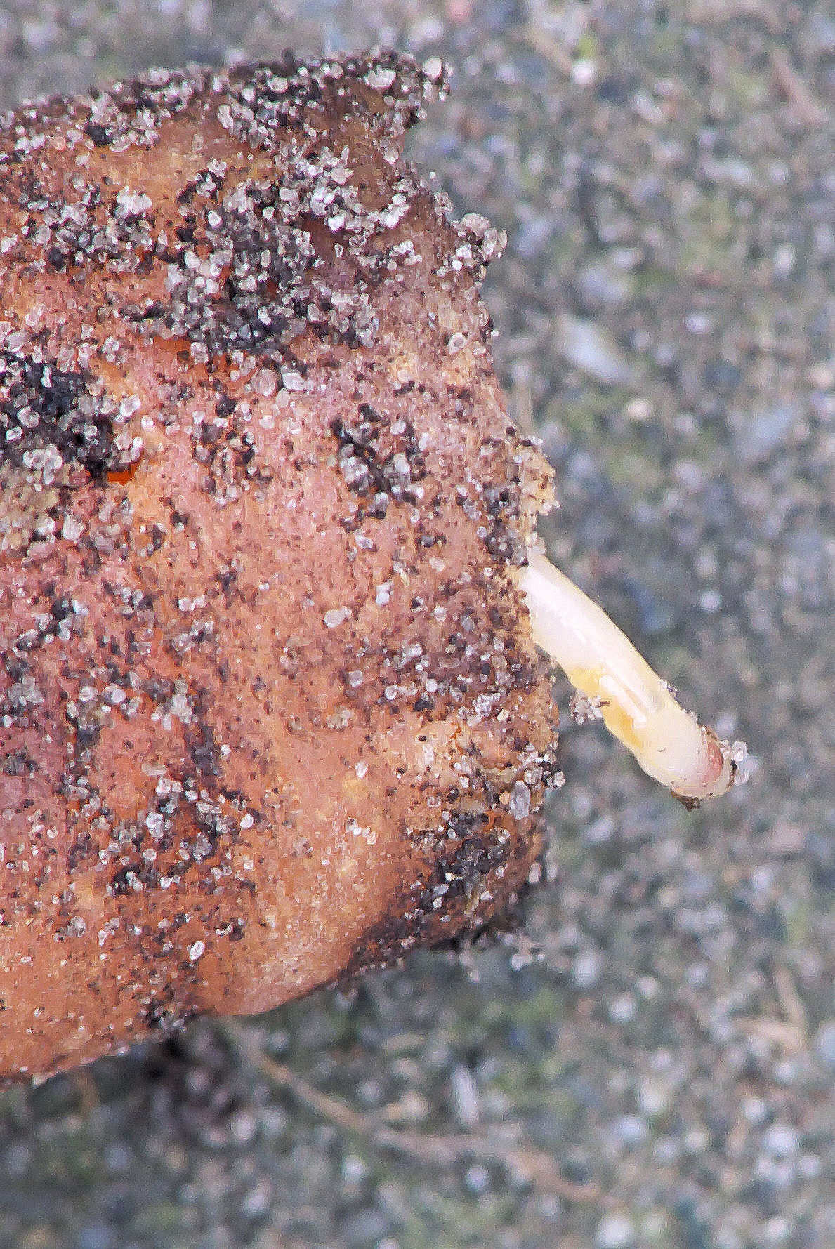 Chamaepsila rosae syn.Psila rosae maggot